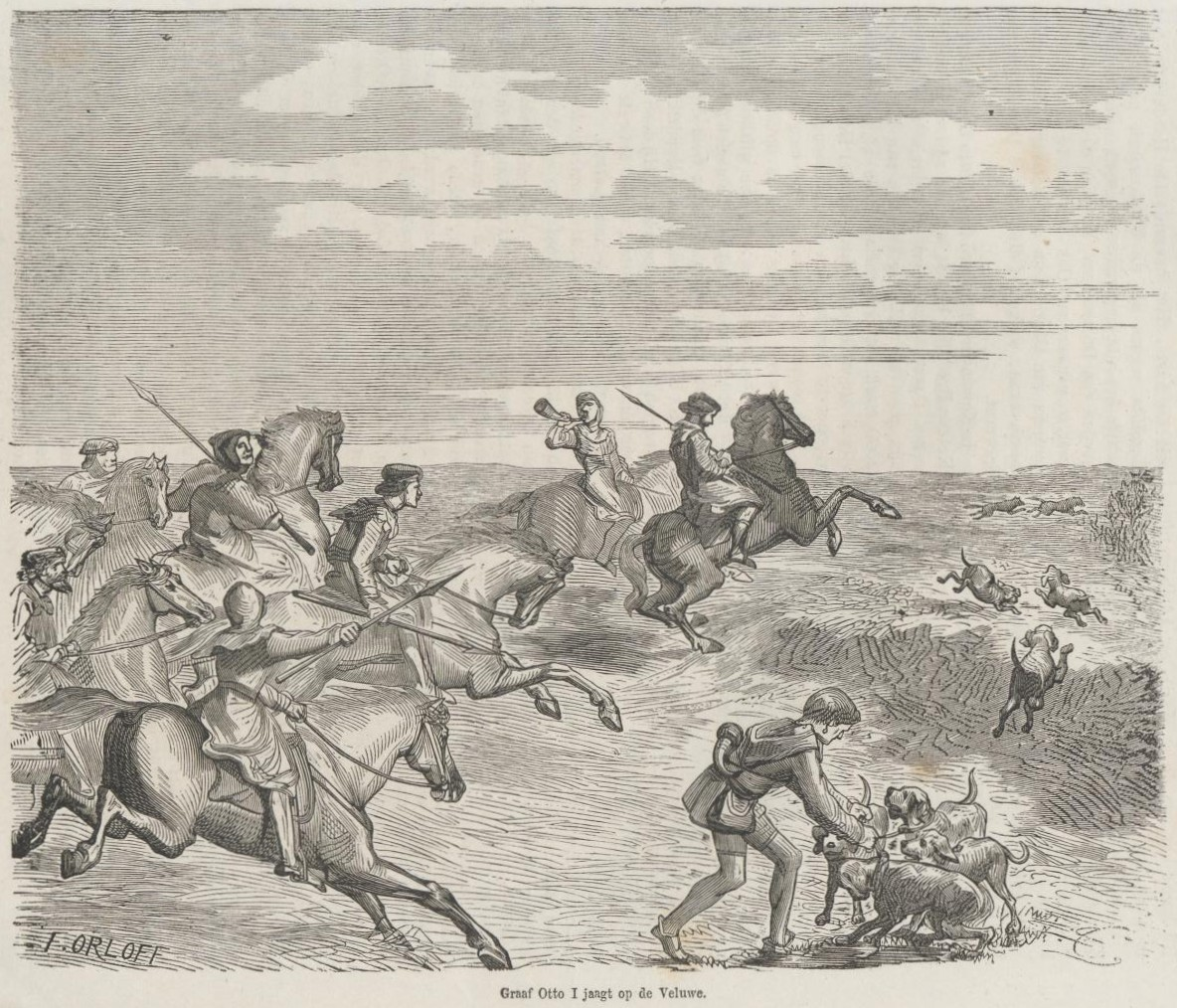 History picture, Count Otto I hunting on the Veluwe